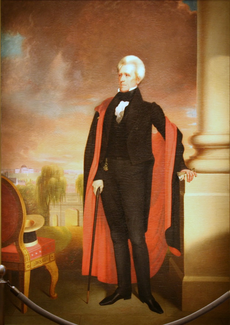 Andrew Jackson (1767-1845), 7th President of the United States (1829–1837)